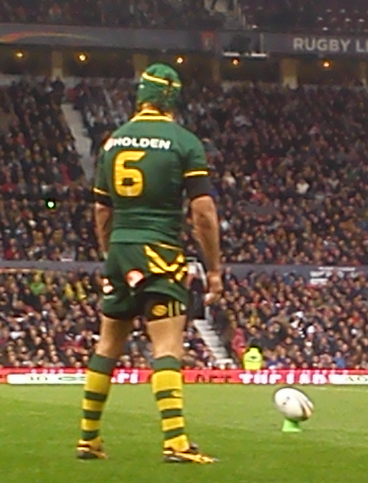 Jonathon Thurston during the 2013 Rugby League World Cup Final at Old Trafford